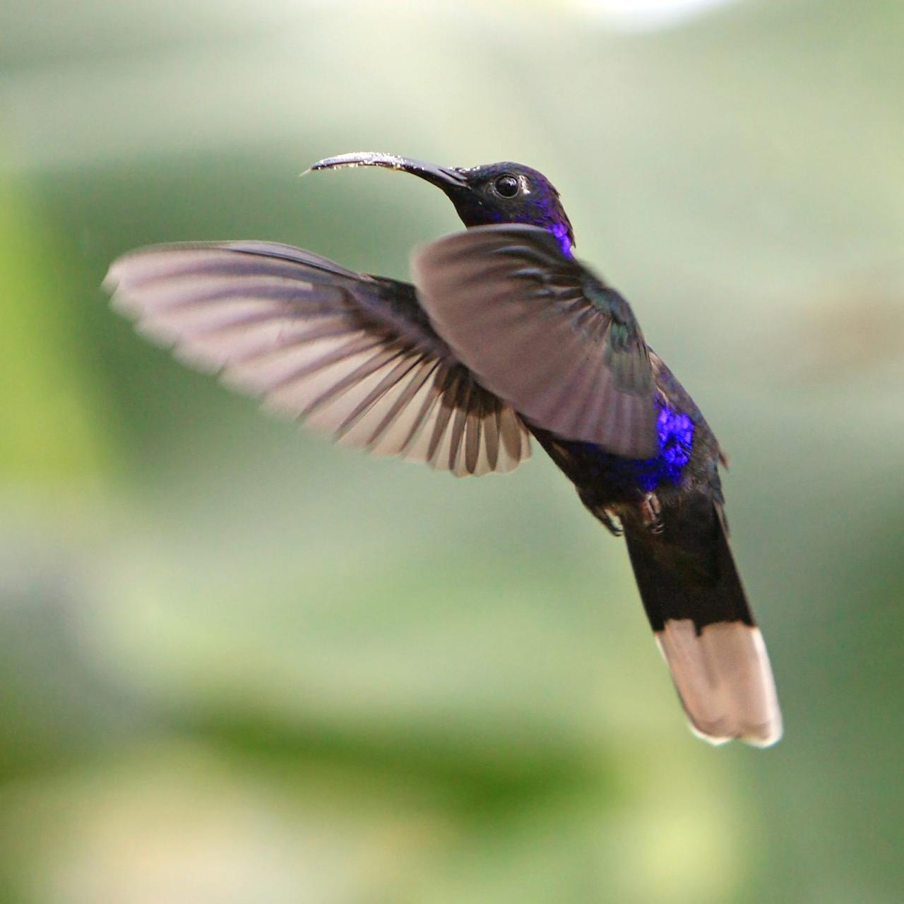 A Violet Sabrewing in Costa Rica.